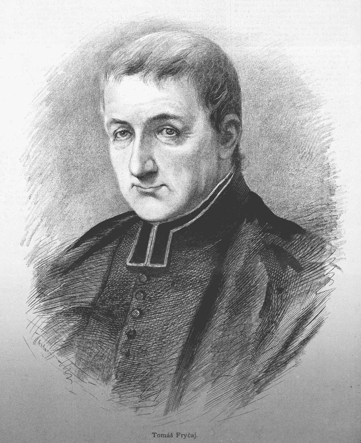 Portrait of Tomáš Fryčaj (1759-1839), Catholic priest, composer and writer from Moravia